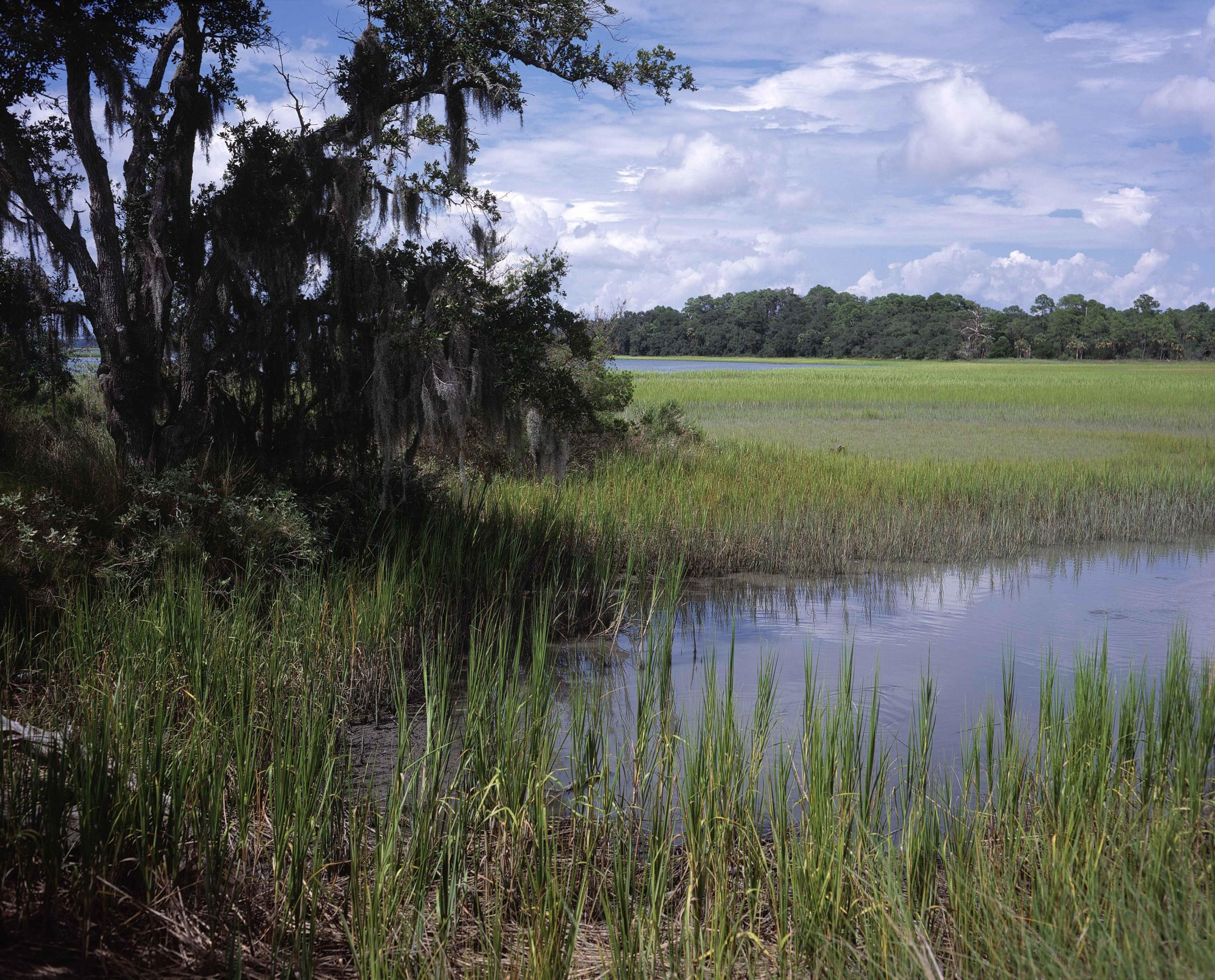 Image title: Pinckney Island National Wildlife Refuge Image from Public domain images website